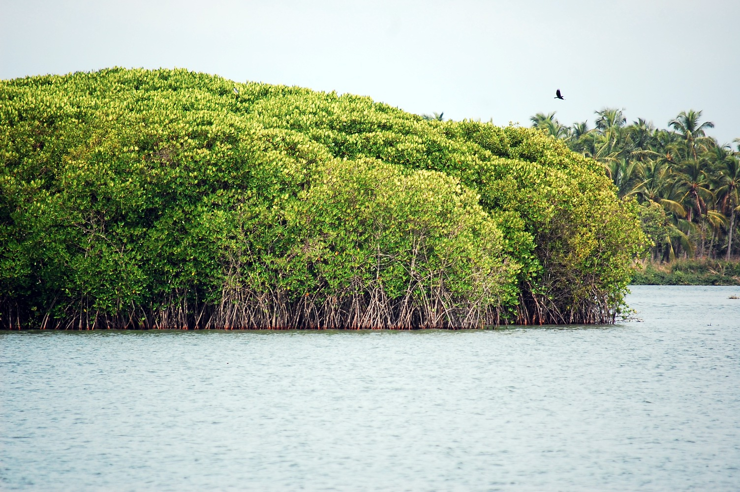 Mangroves at Chettuva Rhizophora apiculata